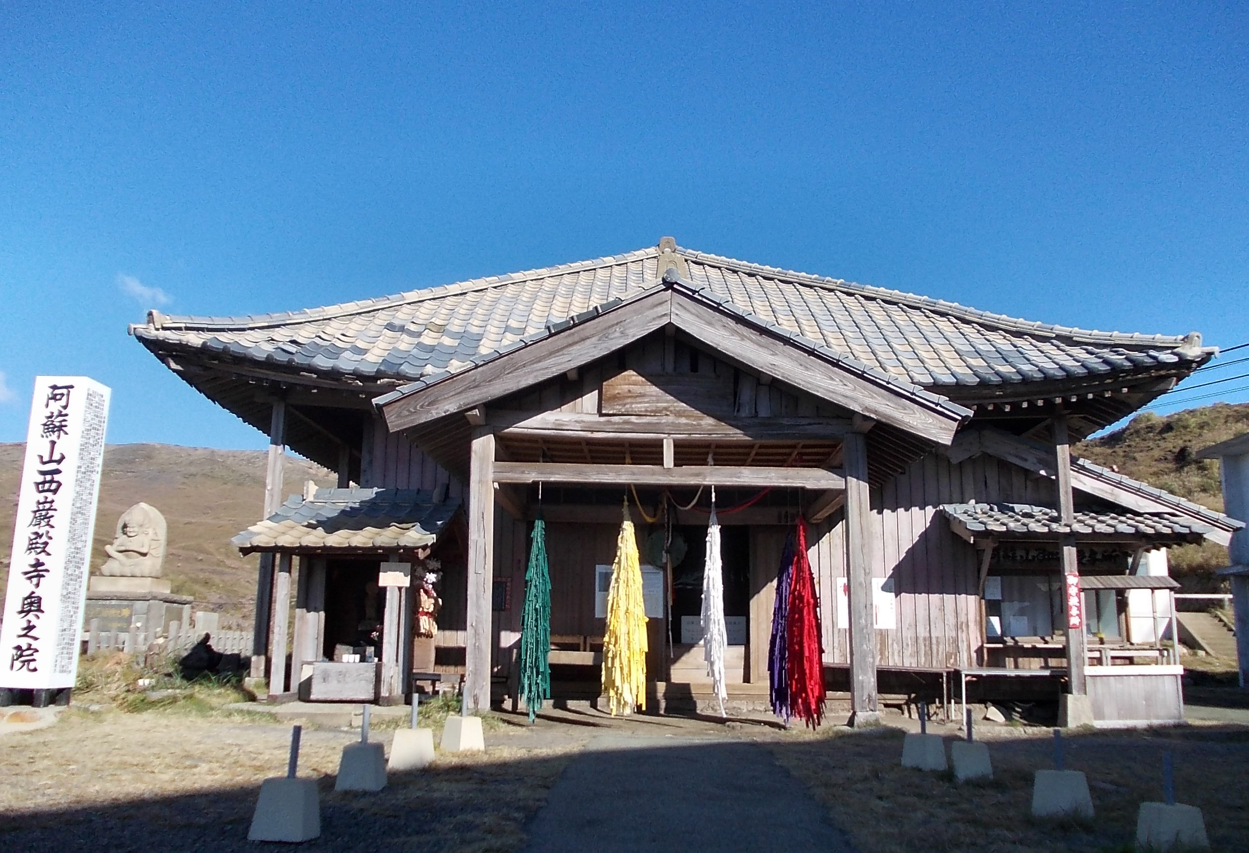 Tendai school temple Asosan Saigandenji in Aso City, Kumamoto Prefecture, Japan